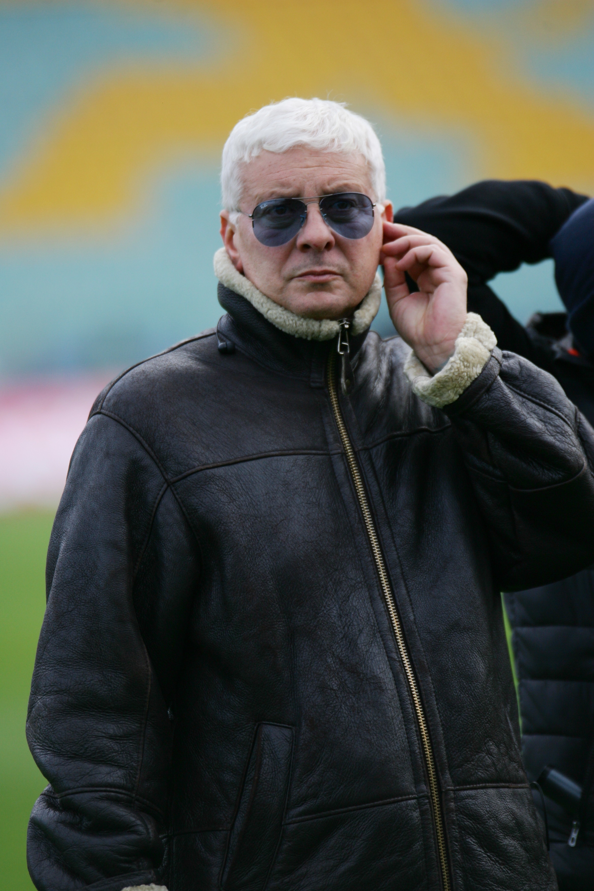 Stanislav Slanev-Stenly - bulgarian pop-singer